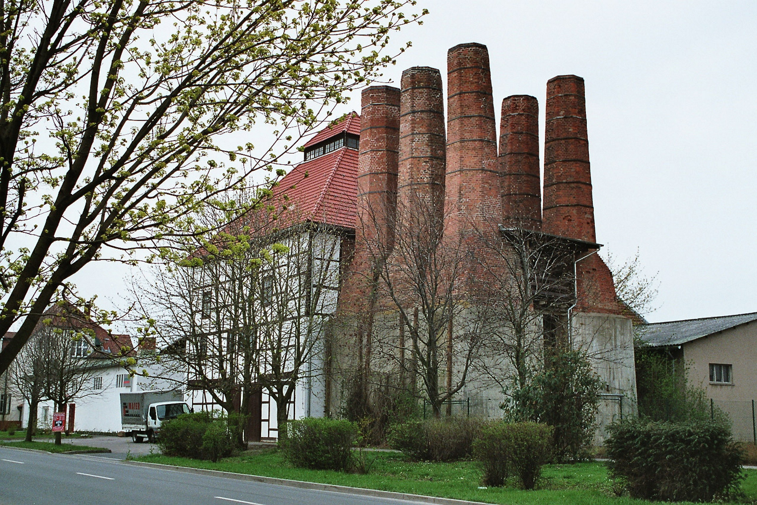 Elxleben (Landkreis Sömmerda), gypsum kiln